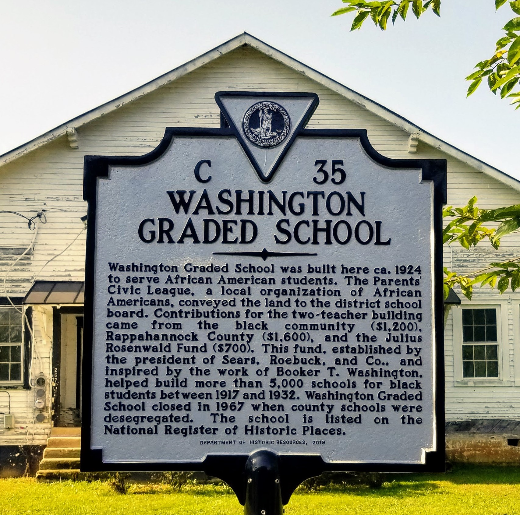 Virginia Historical Highway Marker located in Washington, Virginia